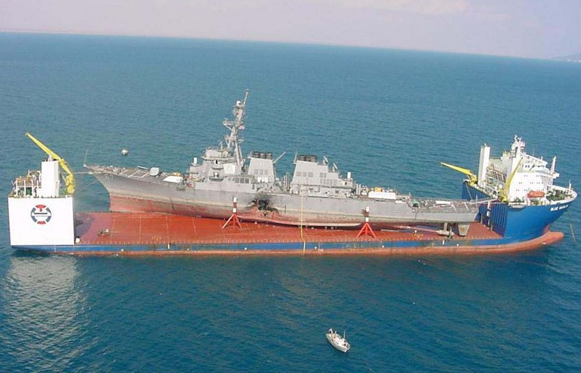 The semi-submersible ship M/V Blue Marlin carrying damaged USS Cole.